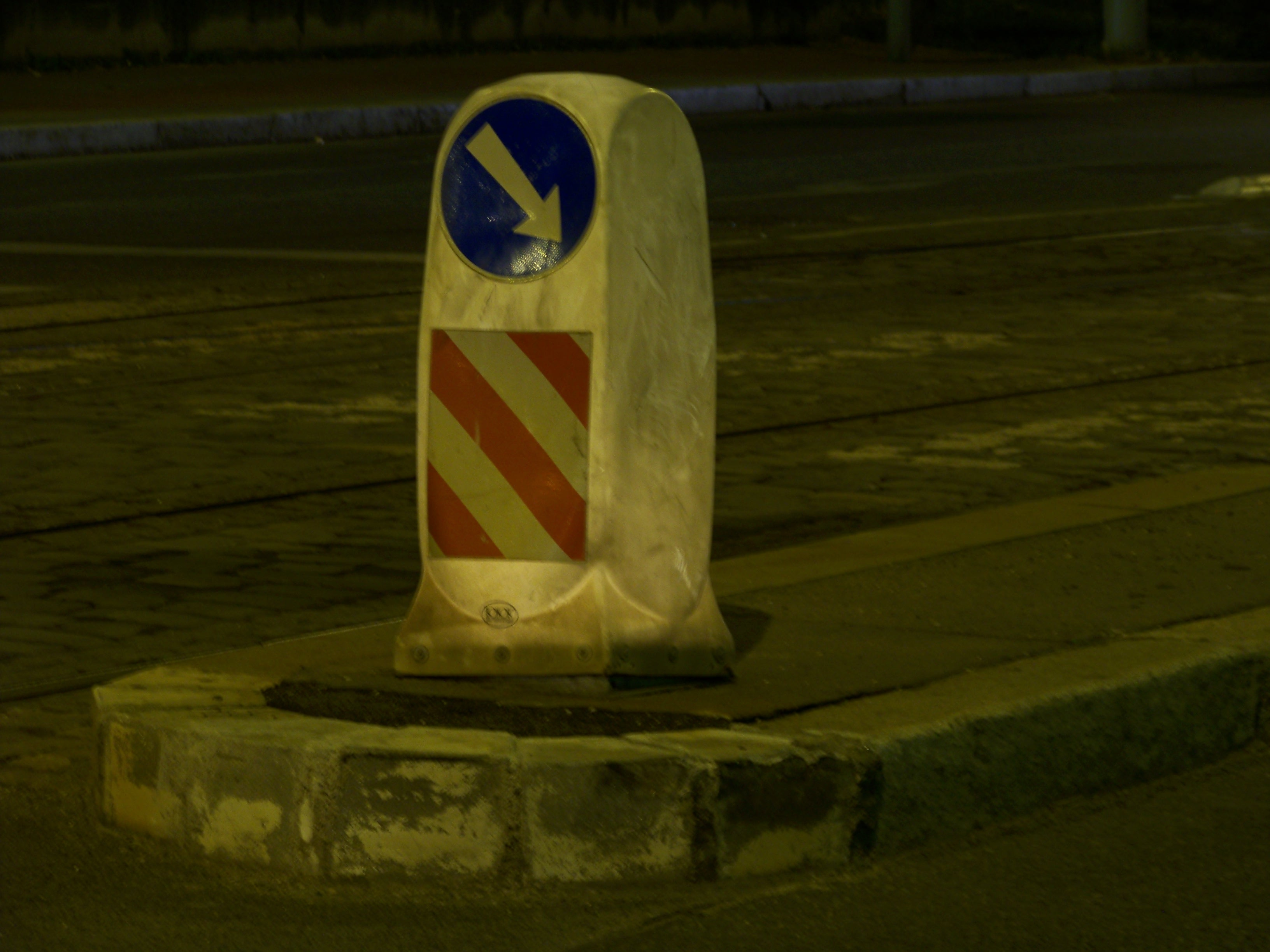 Smíchov, Prague, the Czech Republic. Nádražní street, a luminous traffic bollard.